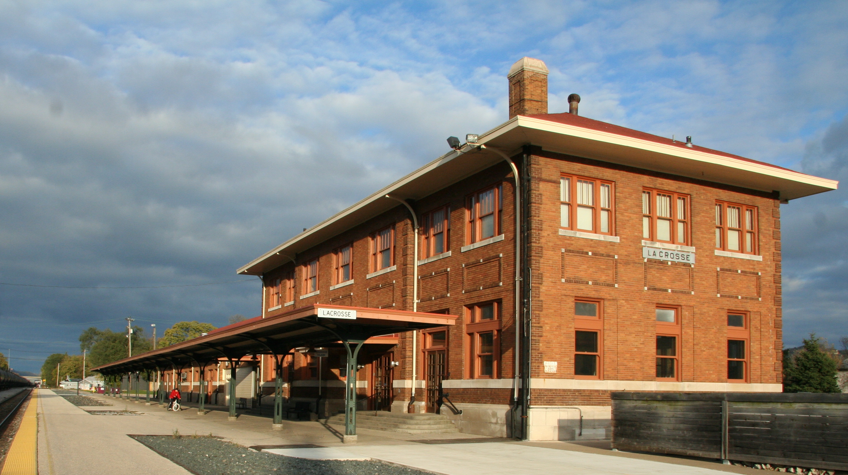 La Crosse Amtrak Station (historic Chicago, Milwaukee and St. Paul Railway Depot) seen from the west, near the tracks, 601 St. Andrew Street, La Crosse, Wisconsin